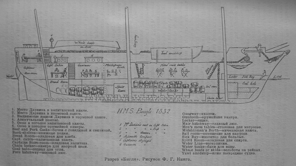 HMS Beagle longitudinal section as of 1832